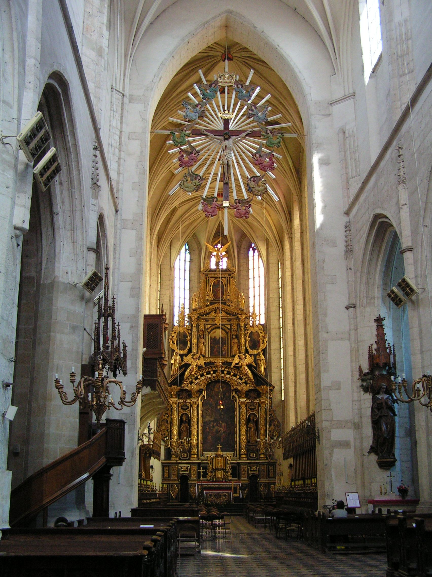 Church of St. Catherine in Kraków, Poland